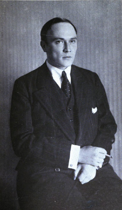 Photo of Mikhail Ivanovich Tereshchenko from the first edition of "Ten Days that Shook the World" (1919). Inscription below photo: "Terestchenko, Minister of Foreign Affairs in Kerensky's Provisional Government, Minister ot Finance in the Miliukov Government. A millionaire from the Kiev. "A tall, impeccably dressed young man, with high cheek bones."